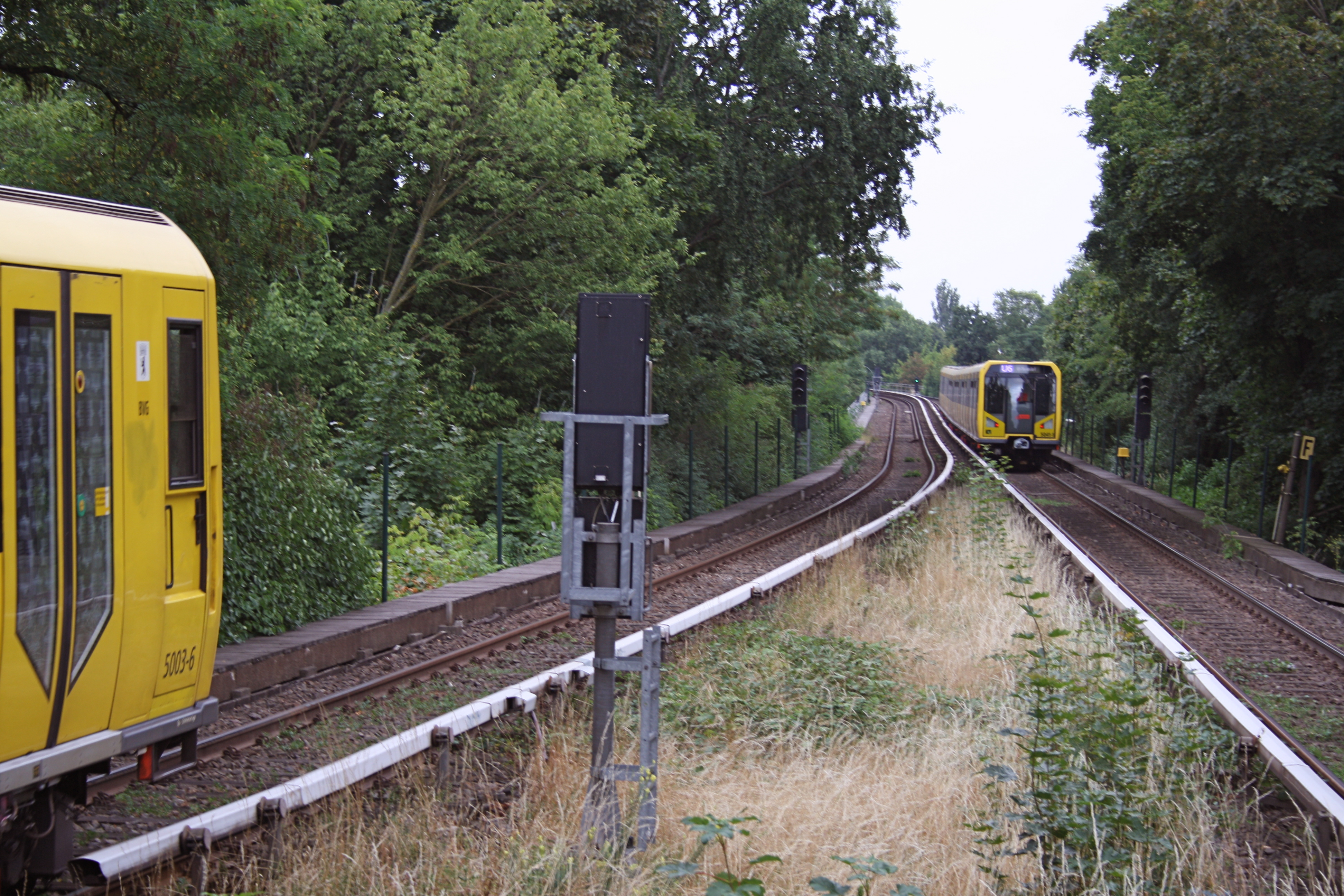 Southern view from Otisstraße U-Bahn station in Berlin-Reinickendorf